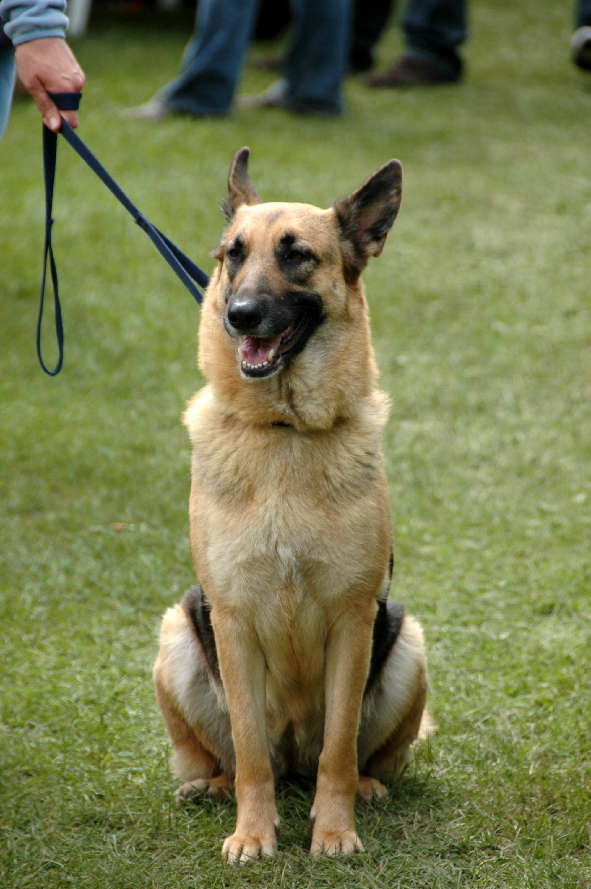 A German Shepherd Dog.